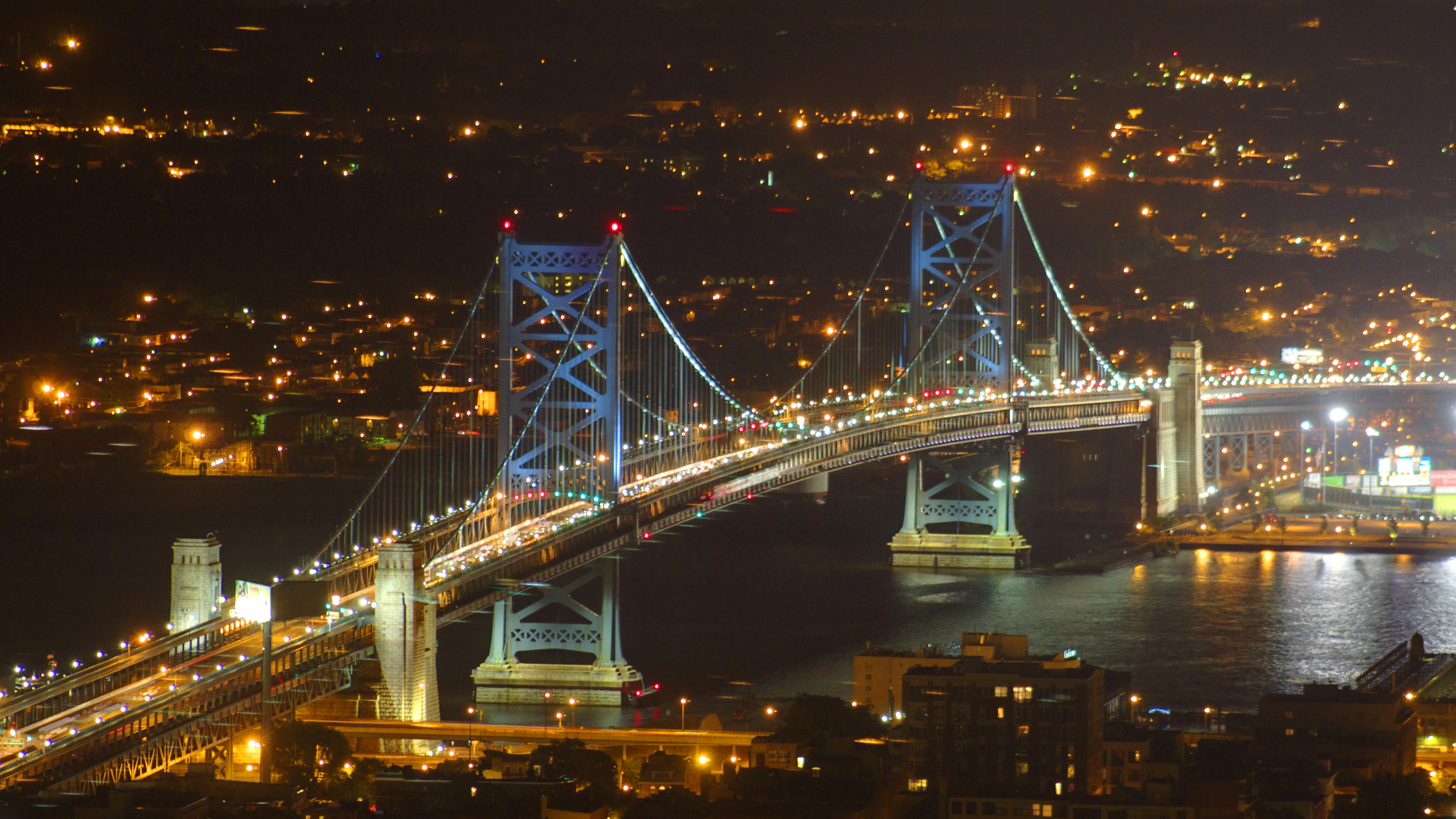 Night view of the Benjamin Franklin Bridge linking Philadelphia with Camden, New Jersey across the Delaware River, from the Pyramid Club on the 52nd floor of the BNY Mellon Center. First posted at: Brozzetti Gallery